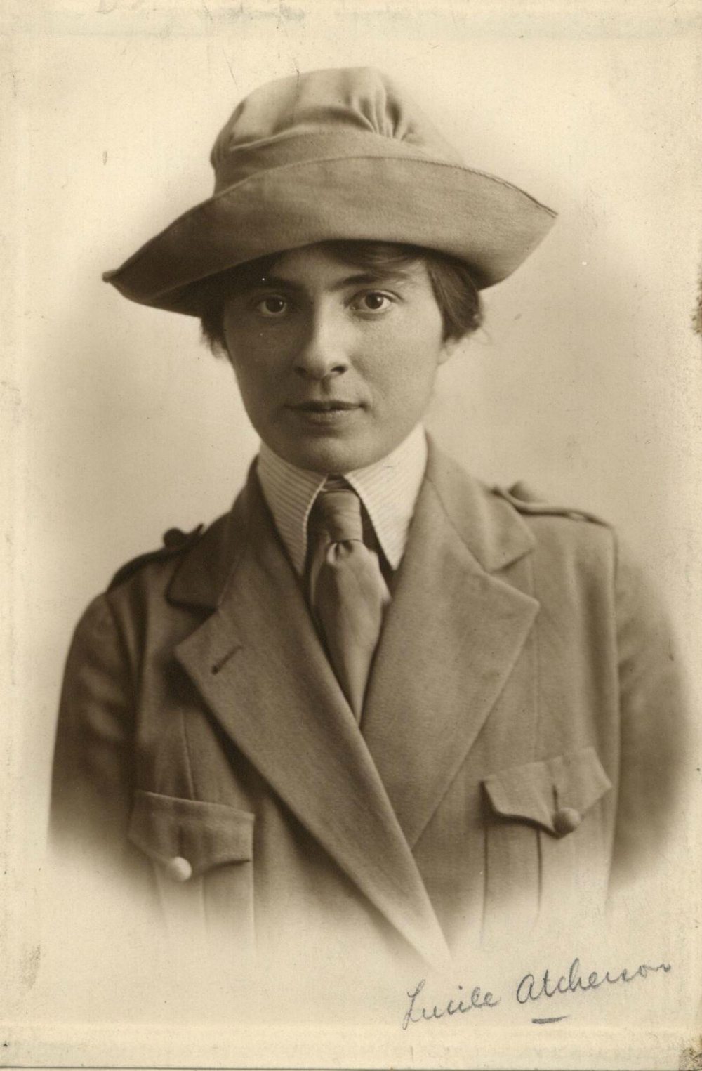 This photograph features Lucile Atcherson Curtis, who became the first female American Foreign Service officer after passing the Foreign Service exam in 1922 with the third highest score that year. With the passage of the Rogers Act establishing the current merit-based, professional Foreign Service, the modern Foreign Service was created on May 24, 1924. On May 22, 2014, U.S. Secretary of State John Kerry delivered remarks at an event celebrating the 90th anniversary of the U.S. Foreign Service. [American Foreign Service Association photo]